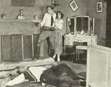 Still from the American western film The Killer (1921) with Jack Conway, Claire Adams, and an unidentified actor on the ground, on page 6 of the January 25, 1921 Film Daily.